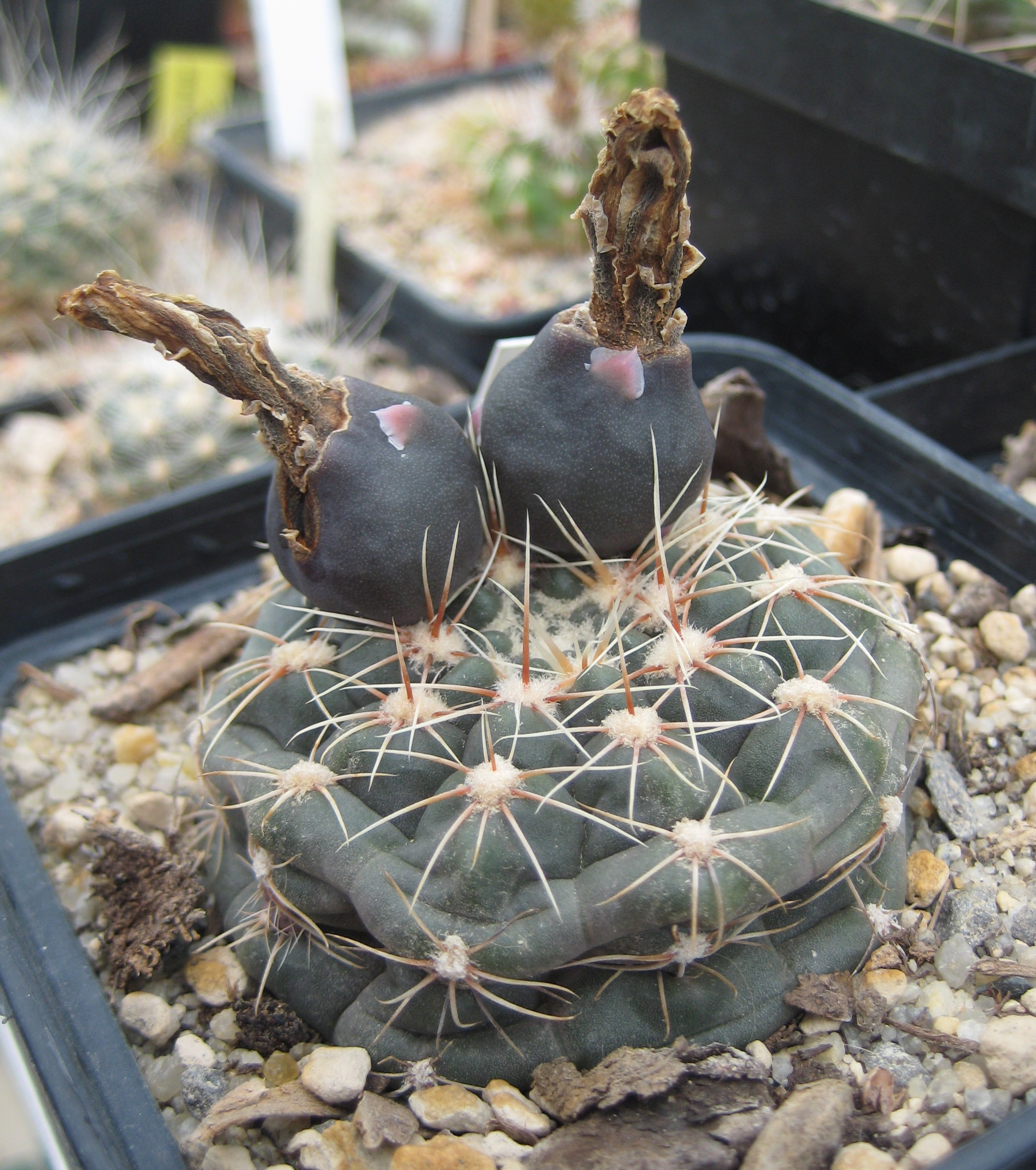 Gymnocalycium andreae, fruits